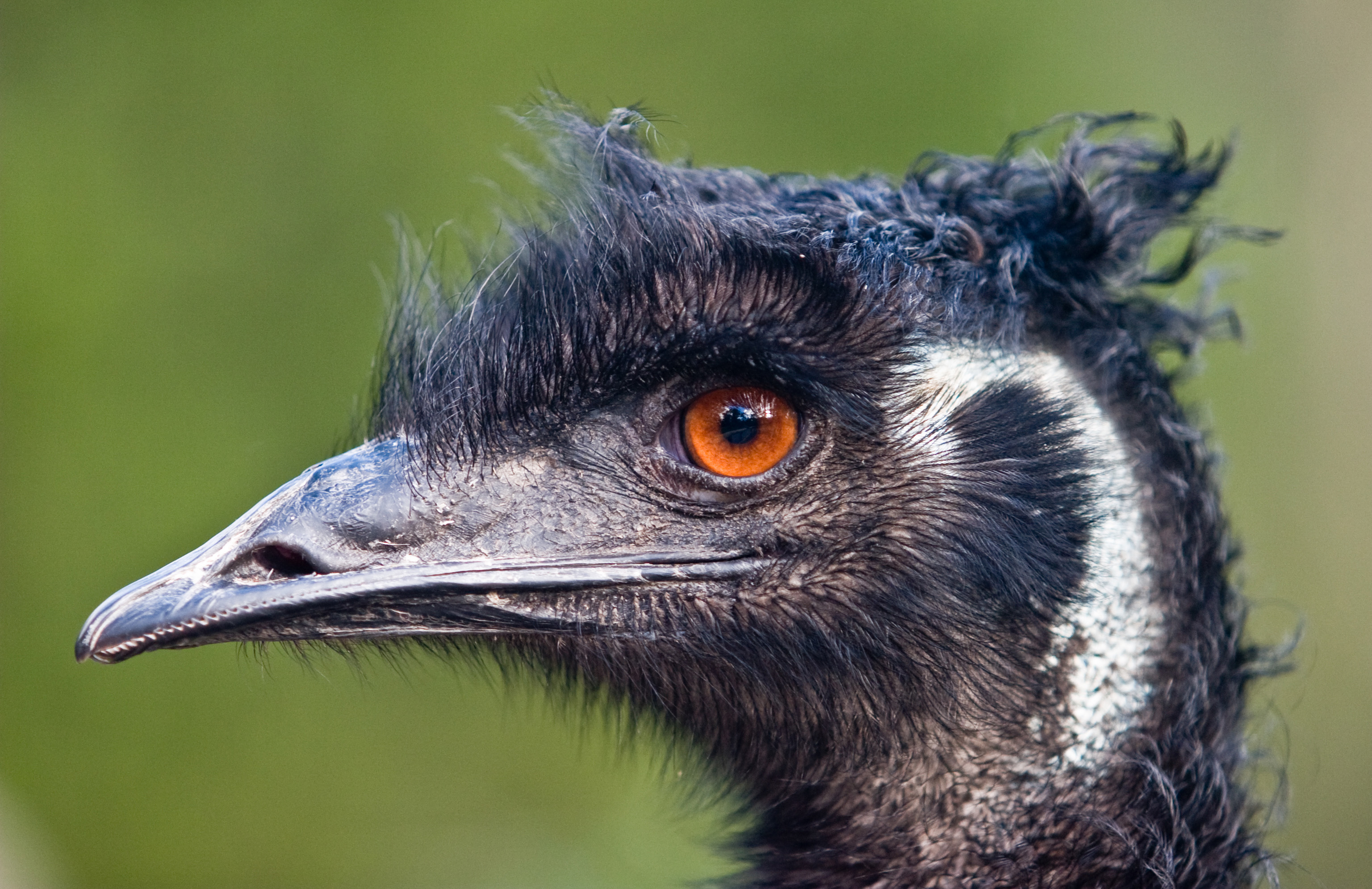 A close up of the head of an Emu at Healesville Sanctuary, in Victoria, Australia. Taken by myself with a Canon 10D and 70-200mm f/2.8L lens.